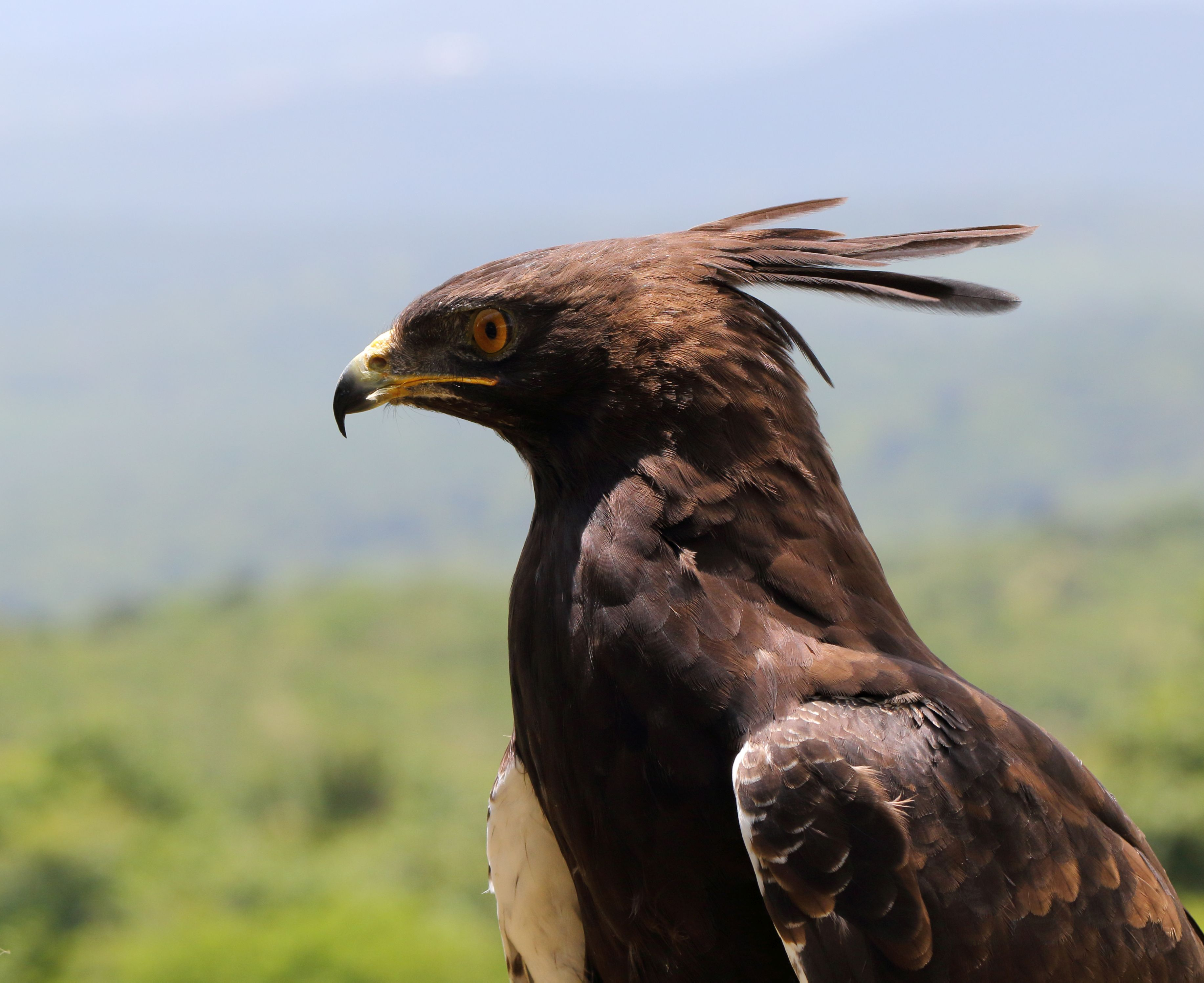 A Long-crested Eagle Lophaetus occipitalis; this is a rehabilitated bird at the African Bird of Prey Sanctuary, Umlaas Road, KwaZulu-Natal, South Africa.